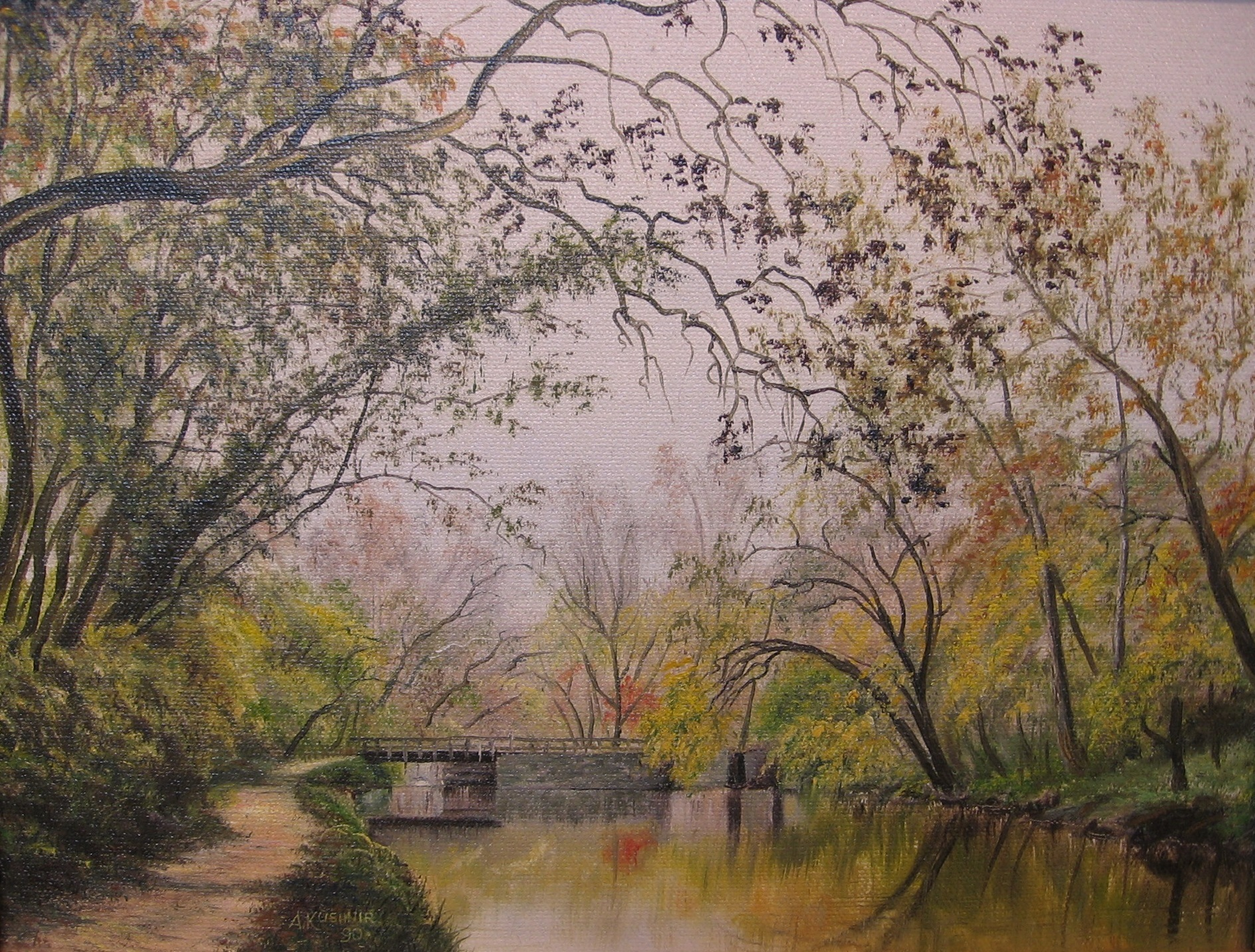 "Autumn, 1990", Andrei Kushnir.